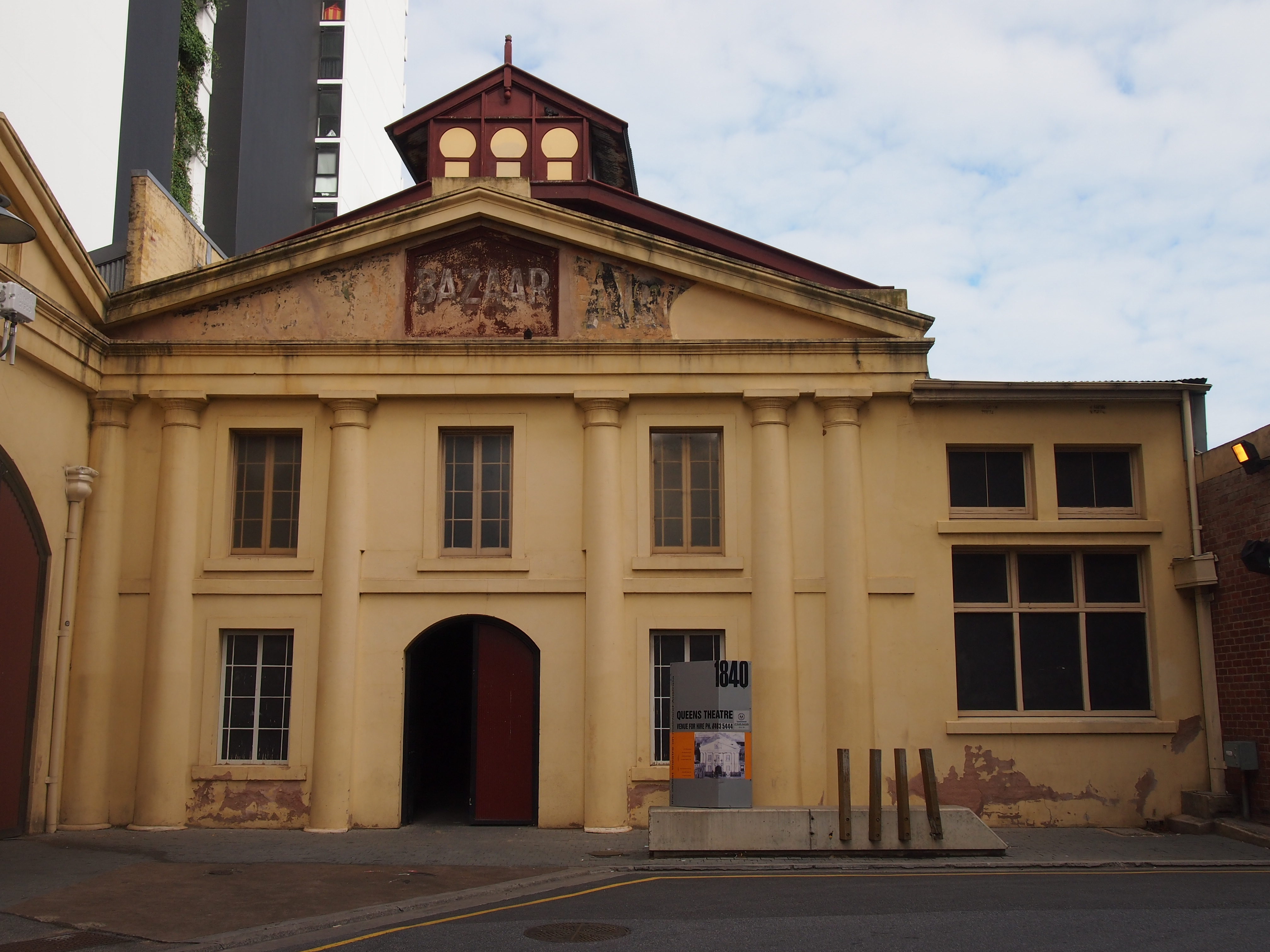 Queen's Theatre, Adelaide, originally built in 1940, restored 1850 façade shown, is the oldest theatre in mainland Australia Original filename = P5041825.JPG